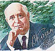 Vadim Kozin on postal stamp